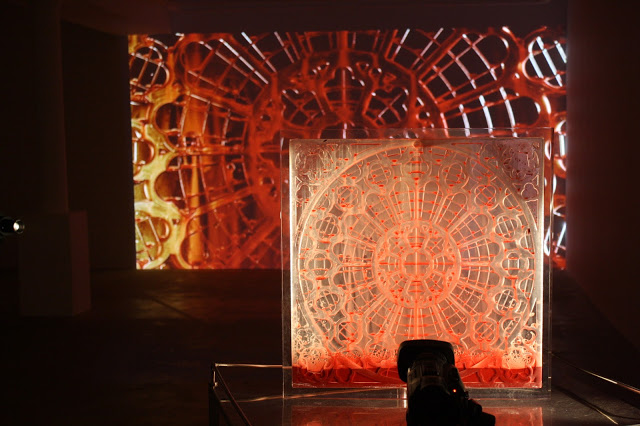 Andrei Molodkin, Catholic Blood, 2013. Derry, Northern Ireland